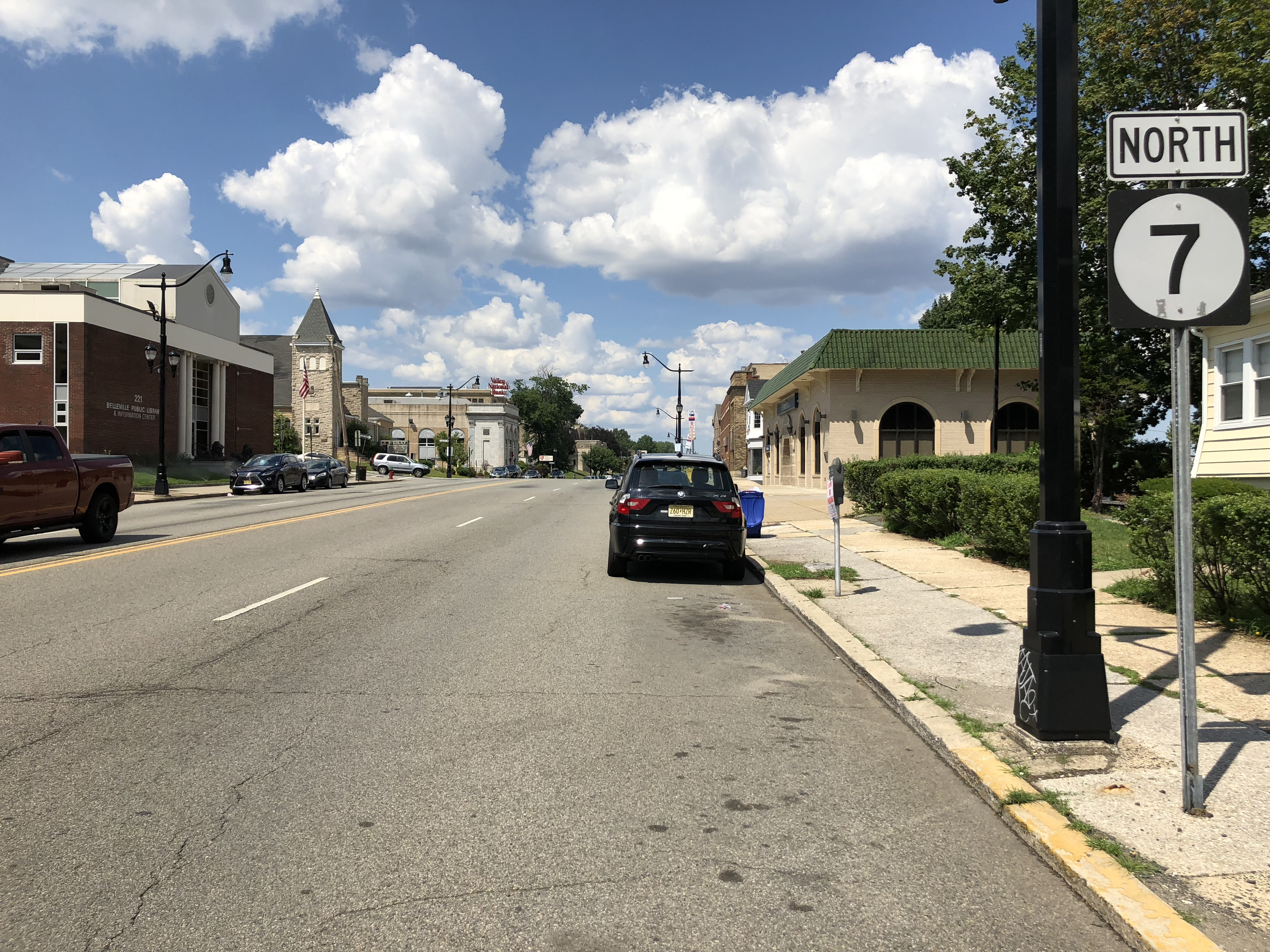 View north along New Jersey State Route 7 (Washington Avenue) at Essex County Route 506 (Rutgers Street) in Belleville Township, Essex County, New Jersey